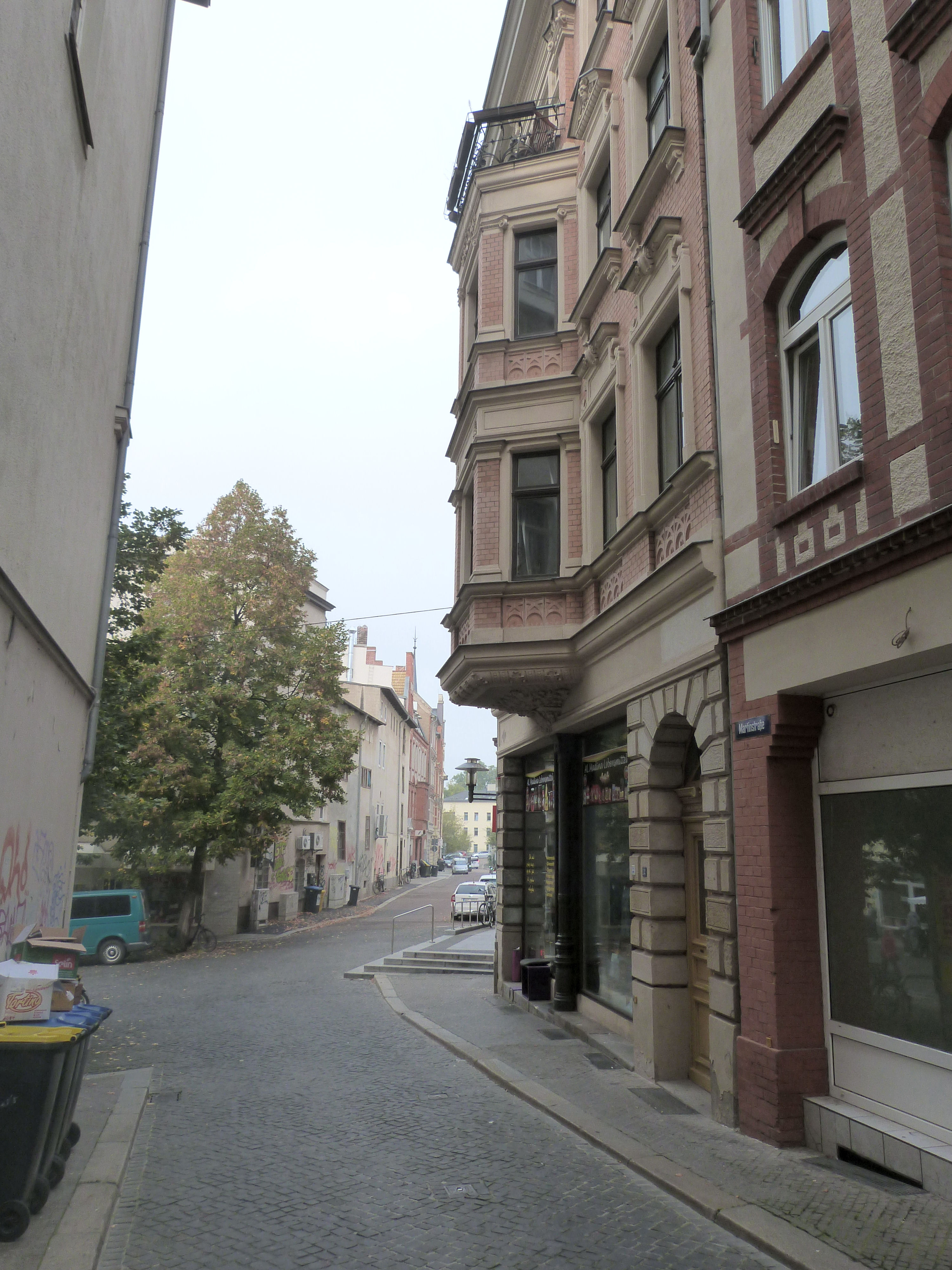 Street Martinstraße in Halle (Saale)